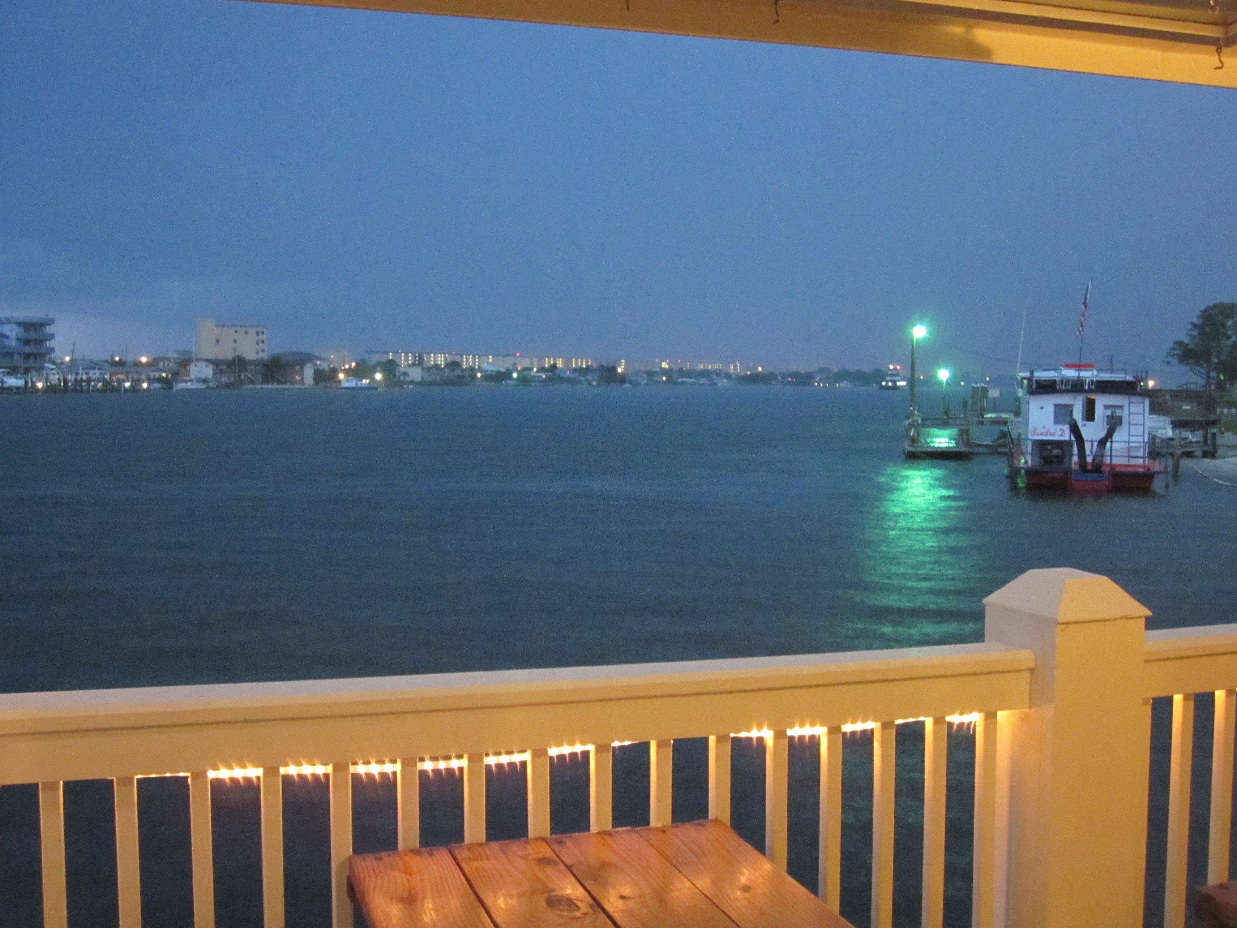 Fort Walton Beach, Florida. View from water side restaurant.